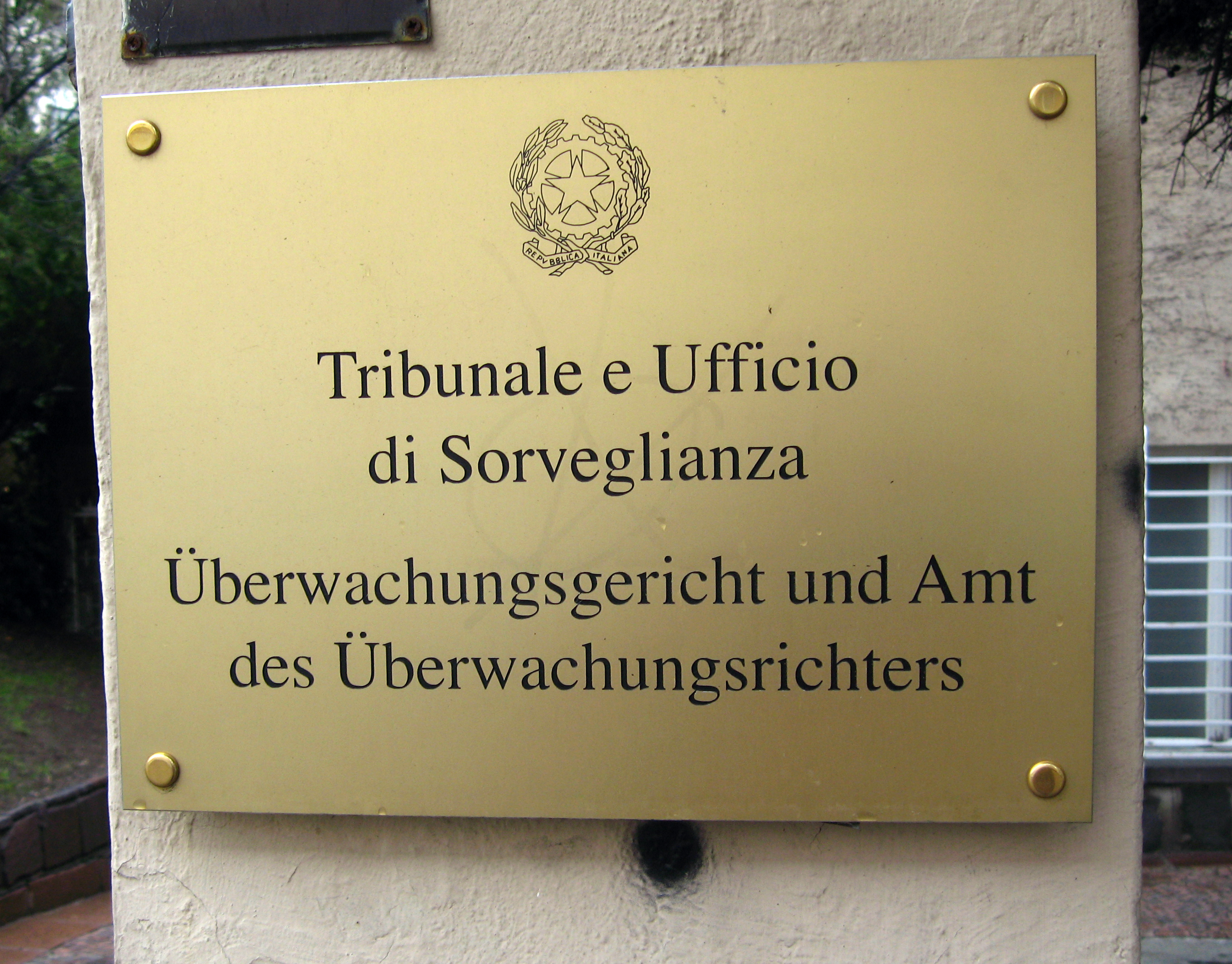 A typical example for a linguistic interference in South Tyrol, Italy (Provincia Autonoma di Bolzano).